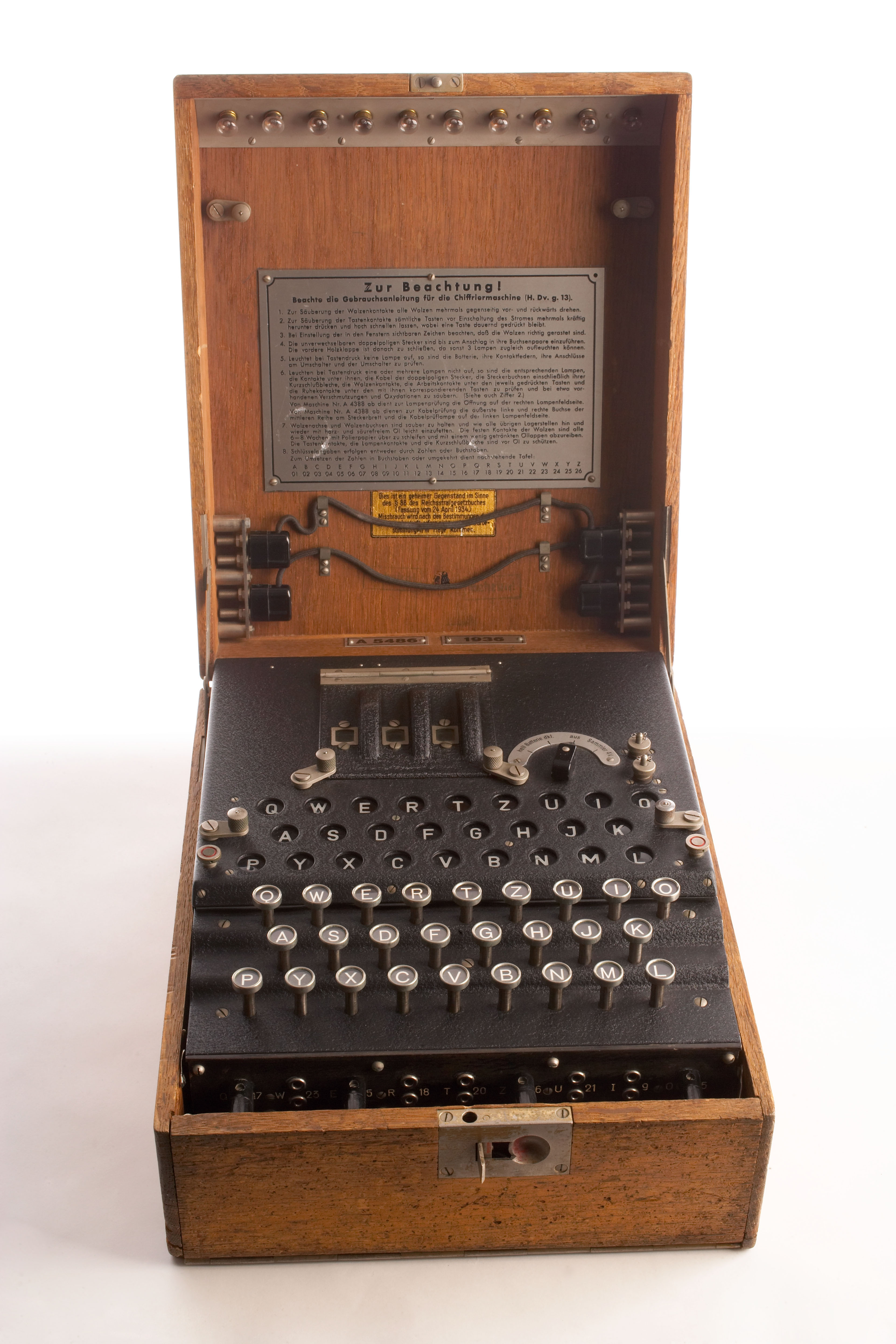 During World War II, the Germans used the Enigma, a cipher machine, to develop nearly unbreakable codes for sending messages. The Enigma's settings offered 150,000,000,000,000,000,000 possible solutions, yet the Allies were eventually able to crack its code. By end of the war, 10 percent of all German Enigma communications were decoded at Bletchley Park, in England, on the world’s first electromagnetic computers.